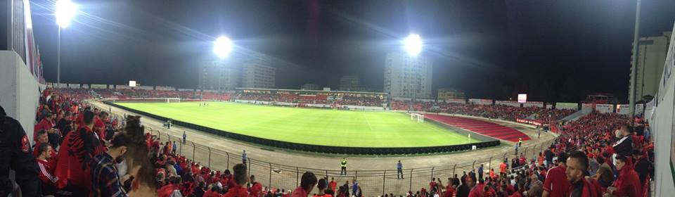 Panoramic view of Elbasan Arena